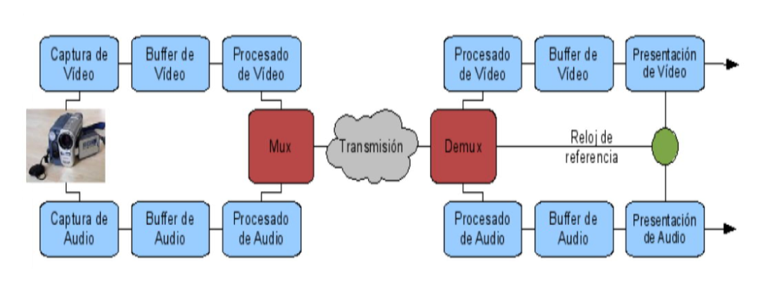 A recording camera system